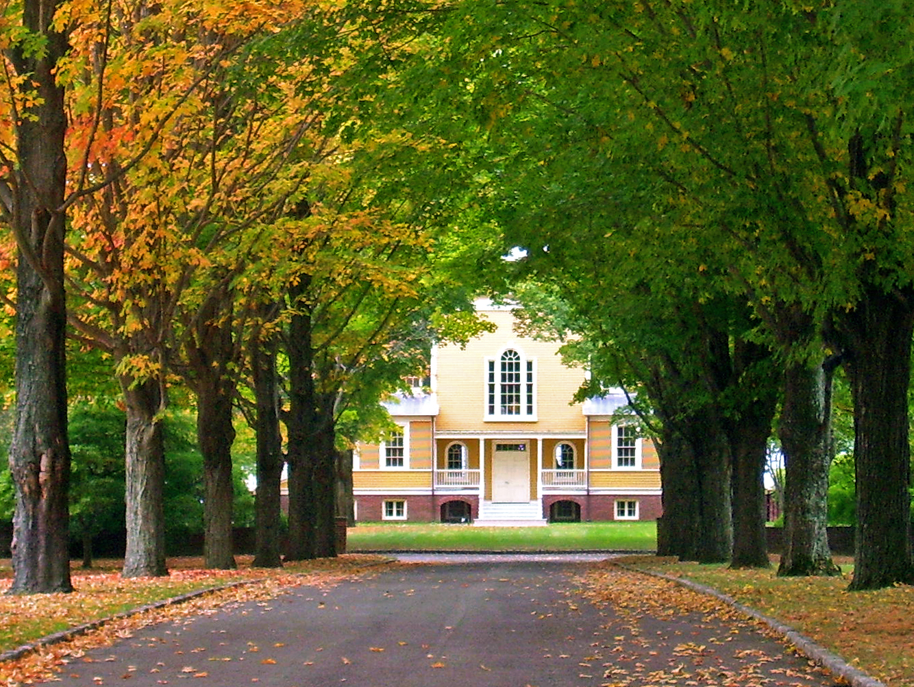 Entrance road to Boscobel estate in Garrison, NY, USA (actually closer to Cold Spring, but who cares?)